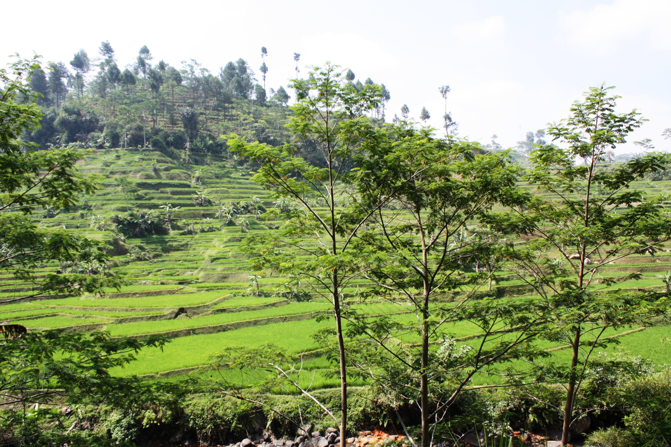 Java have particularly much rice field plantation and vegetable , tobacco too The landscape are in fact very green and sweet , sculpted by the human people, with terrace, about much production . Some area have 3 harvest by year, in exceptional conditions